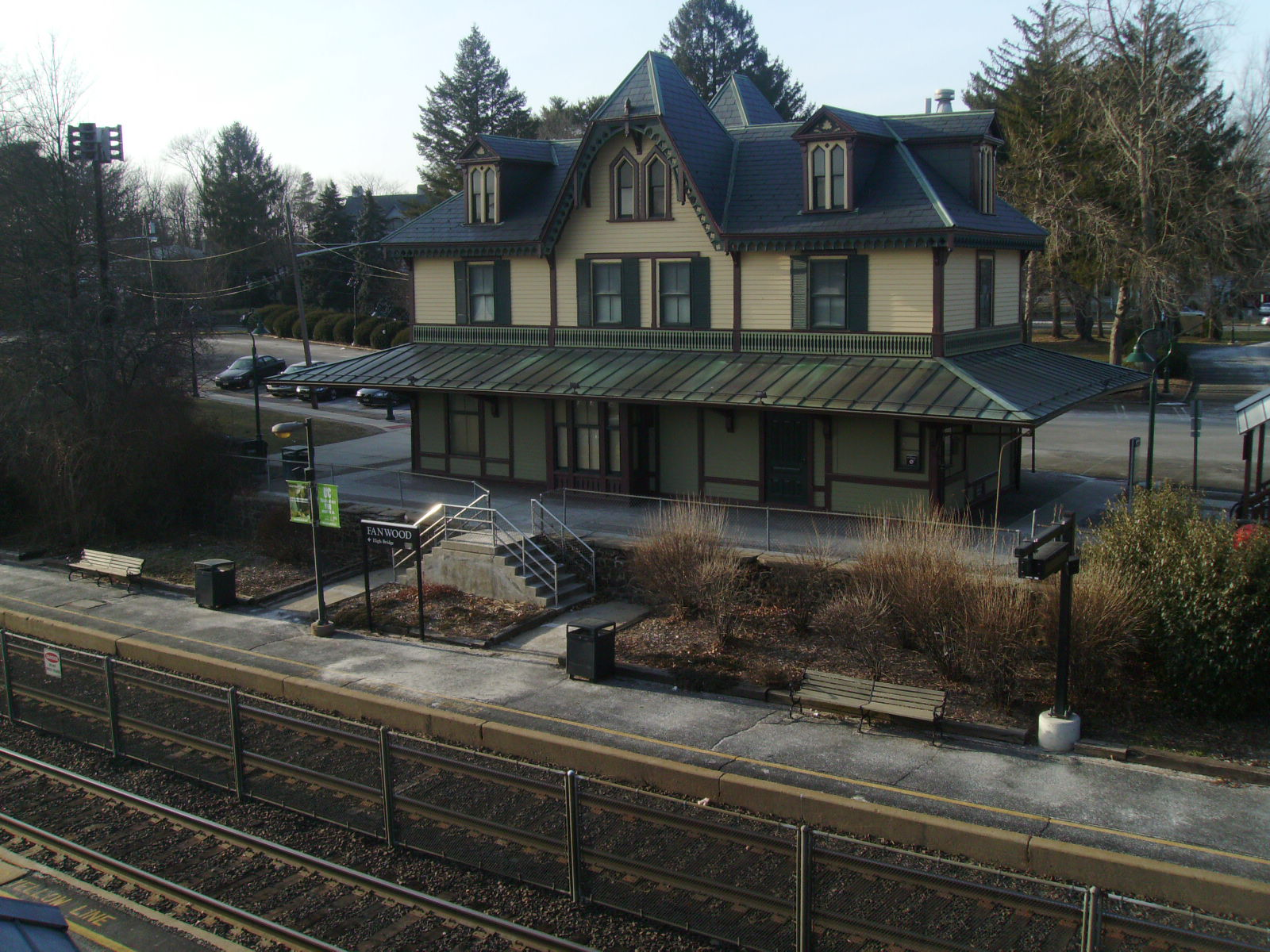 The Fanwood New Jersey Transit station as viewed on a Saturday afternoon from the pedestrian overpass. The station building dates to 1874 and now homes the Fanwood Museum.